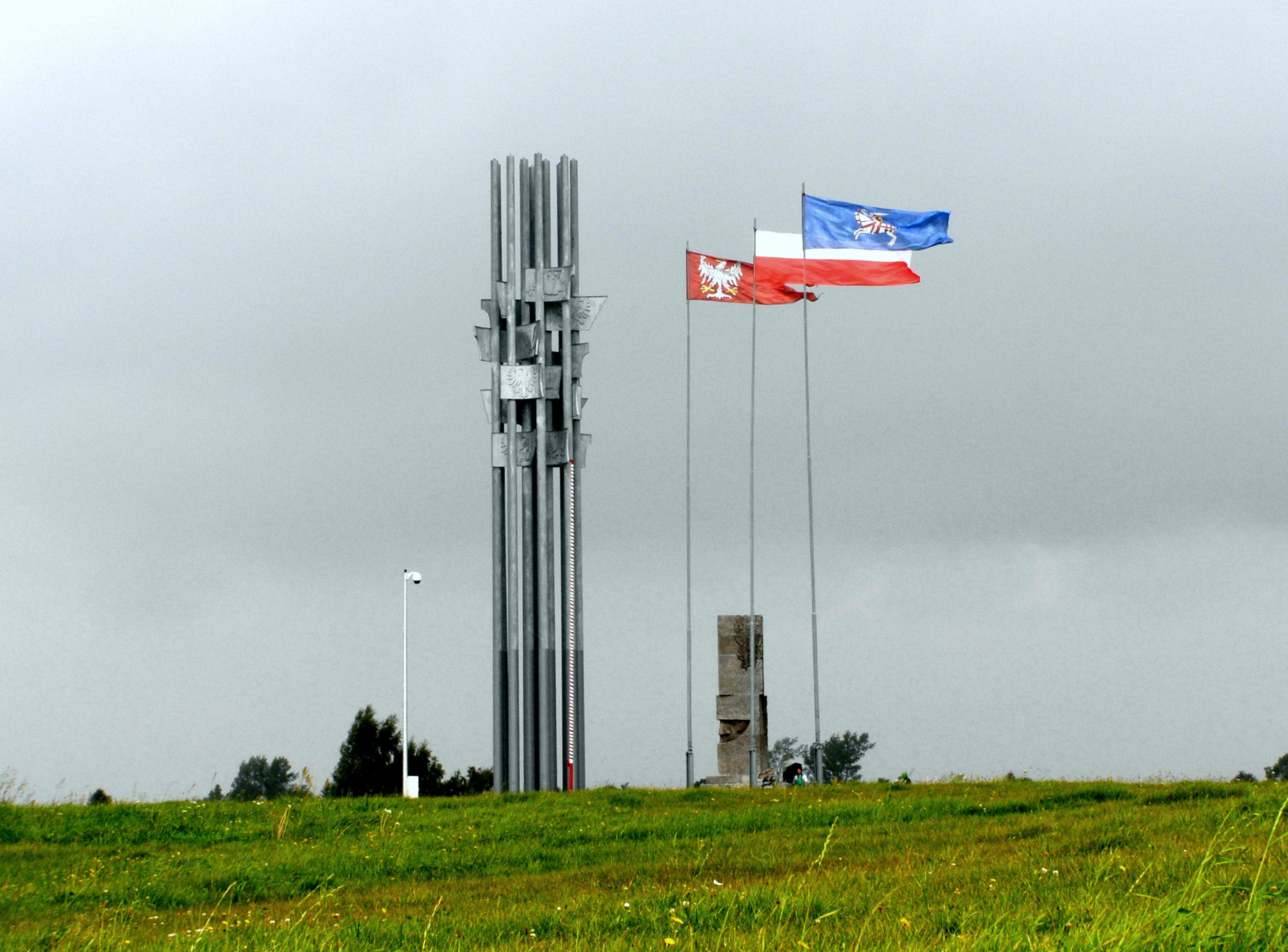 Monument at the Battle of Grunwald